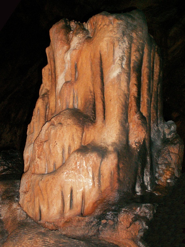 Saeva Dupka Cave, Broken Stalactite "the Gun"